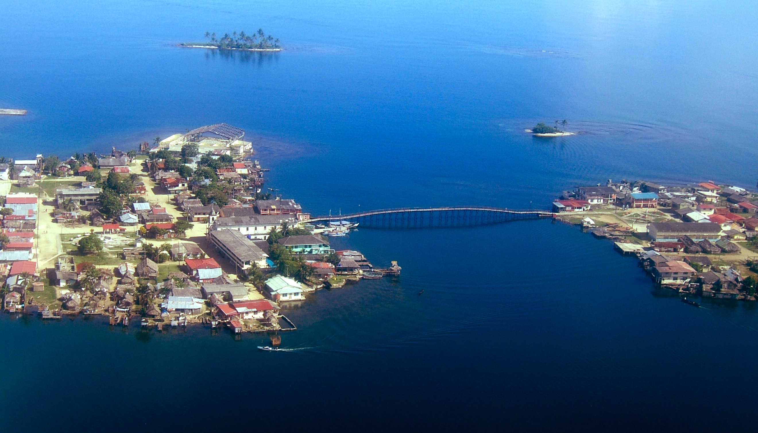 Nargana is on the left, Corazon de Jesus is on the right